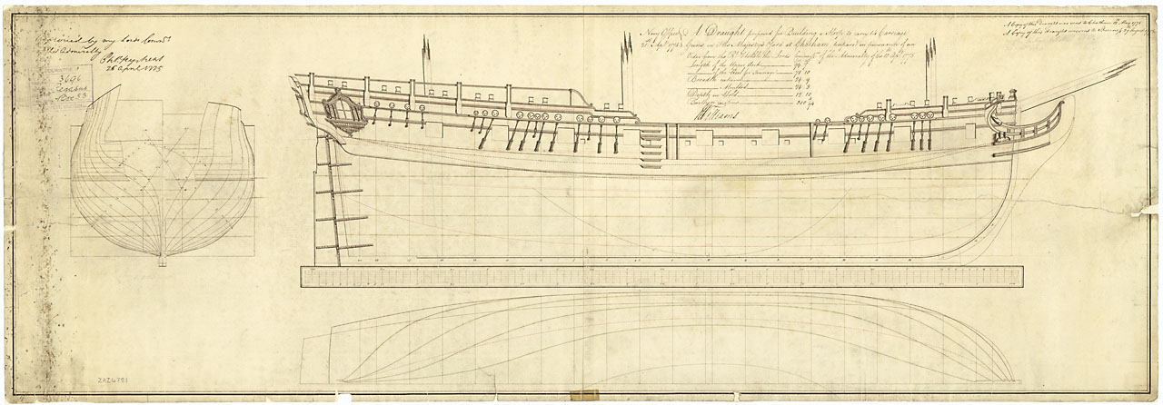 PEGASUS 1776 lines